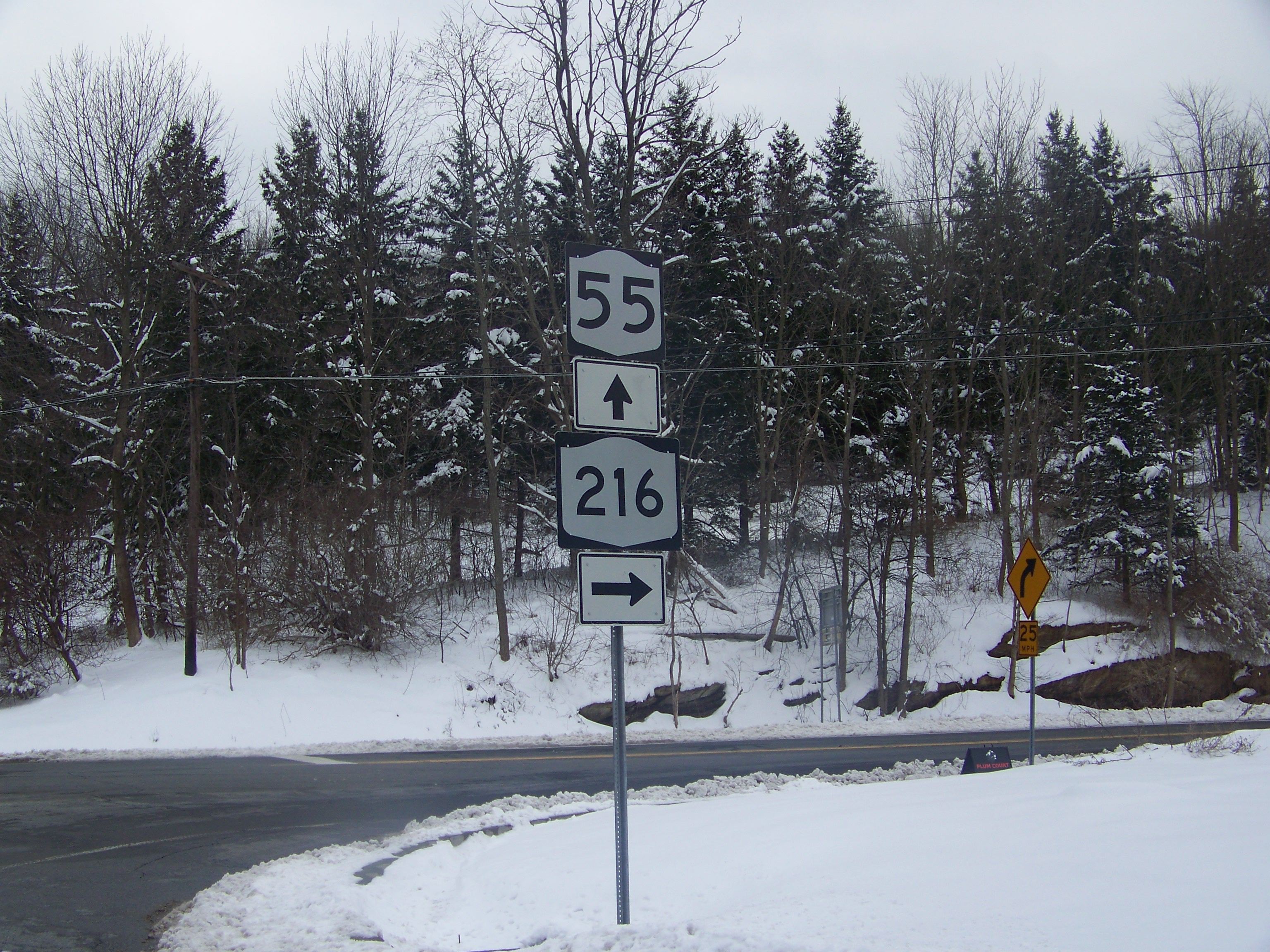 Image of New York State Route 216